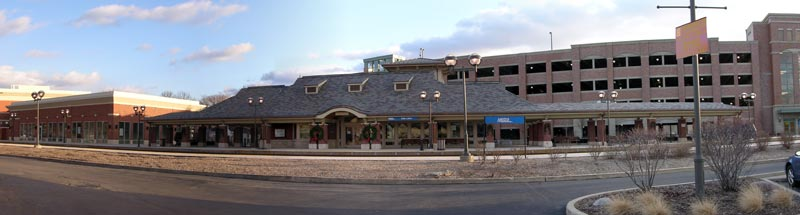 Panoramic image of the Oak Lawn Metra station, with the multi-story parking complex in the distance.